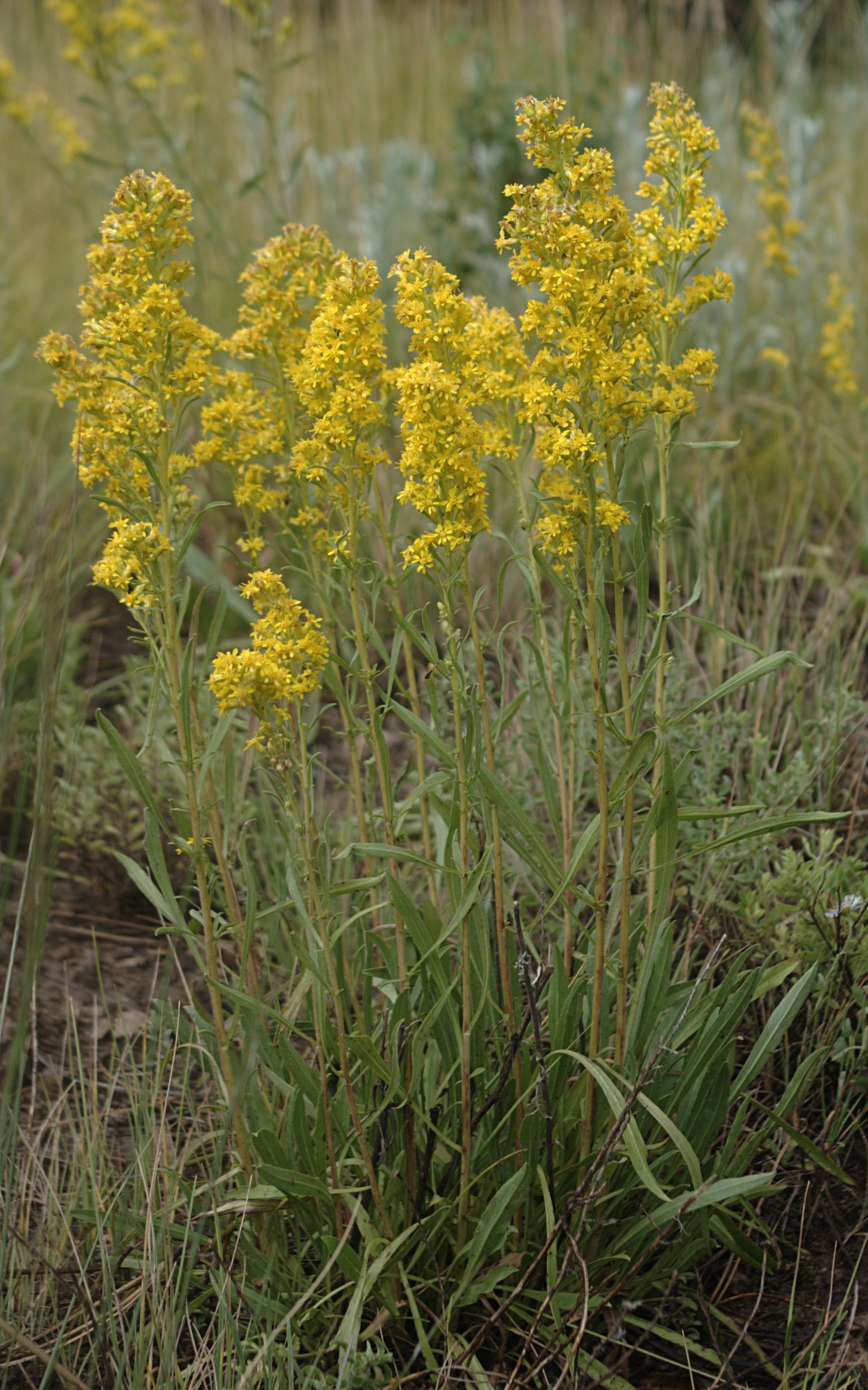 Solidago simplex subspecies simplex var. simplex, narrow goldenrod or Mount Albert goldenrod, Apache Springs Trail, Bandelier National Monument, New Mexico. Thanks to Chick Keller at NMPLANTS-L for ID.